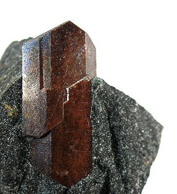 Lorenzenite Locality: Flora Mt, Lovozero Massif, Kola Peninsula, Murmanskaja Oblast', Northern Region, Russia (Locality at ) Size: miniature, 3.6 x 2.9 x 2.5 cm Lorenzenite I have seen many of these when they first came out and can say this is a good one; and this sharp, doubly-terminated crystal, 2.5 cm tip to tip, has wonderful lustre for the species. It makes for a not-as-ugly-as-usual display-quality miniature, too!